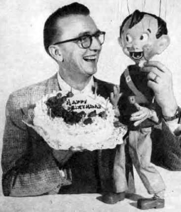 Photo of Jon Arthur and Sparkie from the television program No School Today.